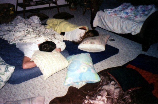 Children at a sleepover.